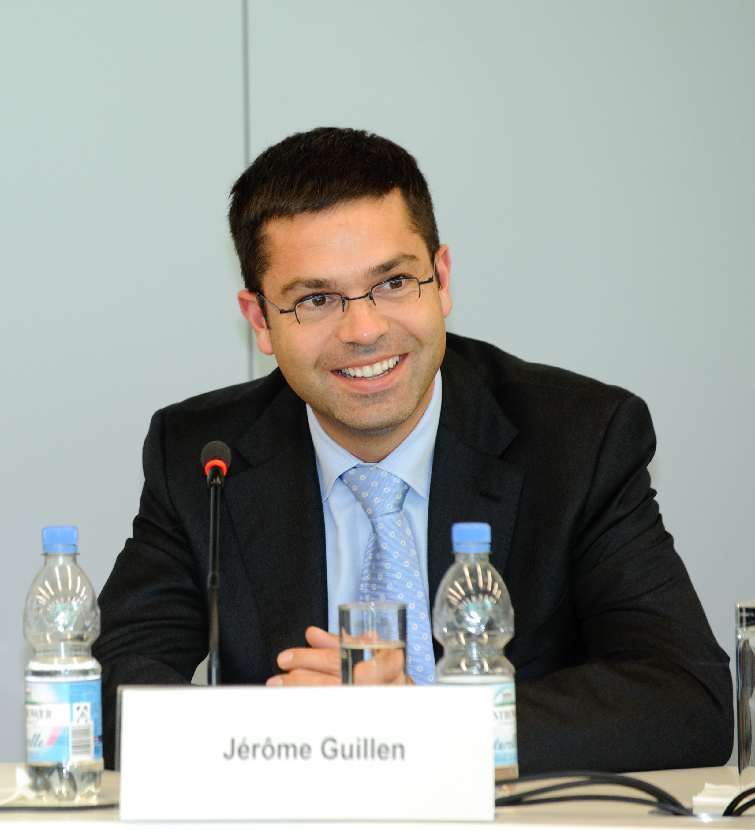 Jerome Guillen, Daimler AG